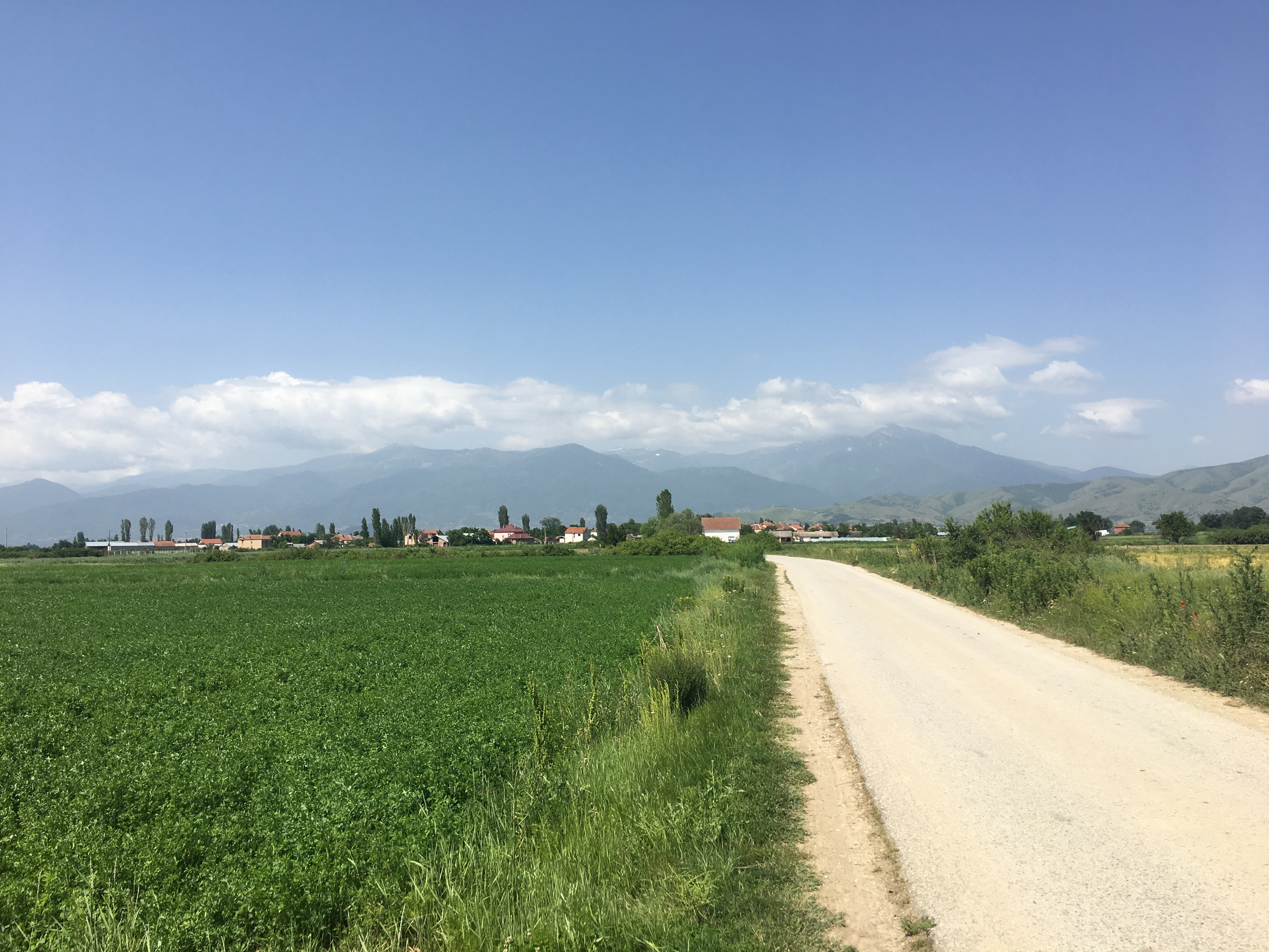 A panoramic view of the village of Karamani